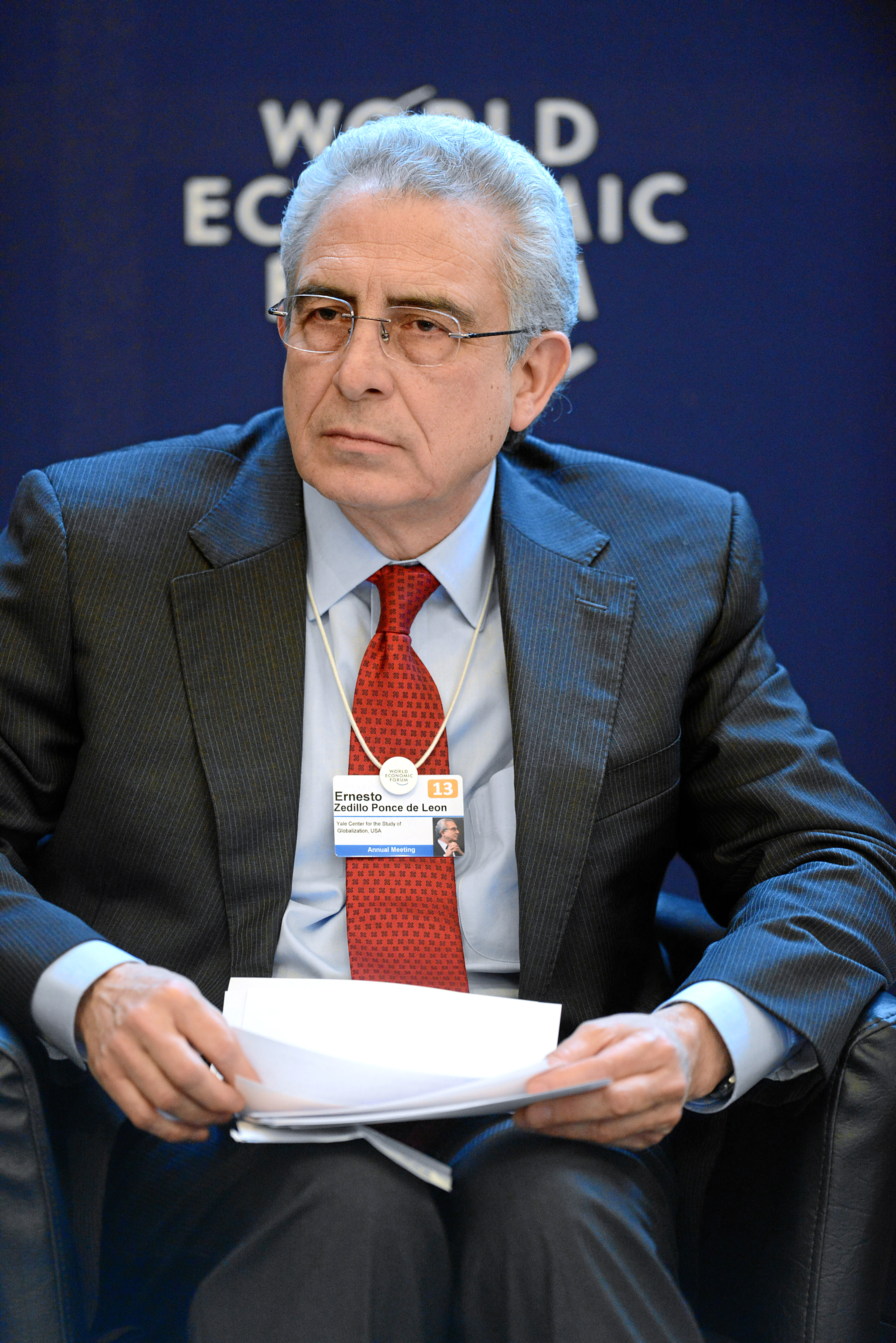 DAVOS/SWITZERLAND, 24JAN13 - Ernesto Zedillo Ponce de Leon, Director, Yale Center for the Study of Globalization, Yale University, USA; World Economic Forum Foundation Board Member; Global Agenda Council on Institutional Governance Systems concentrates during the Forum Debate: 'Winning the War on Drugs' at the Annual Meeting 2013 of the World Economic Forum in Davos, Switzerland, January 24, 2013. . . Copyright by World Economic Forum. . Michael Wuertenberg